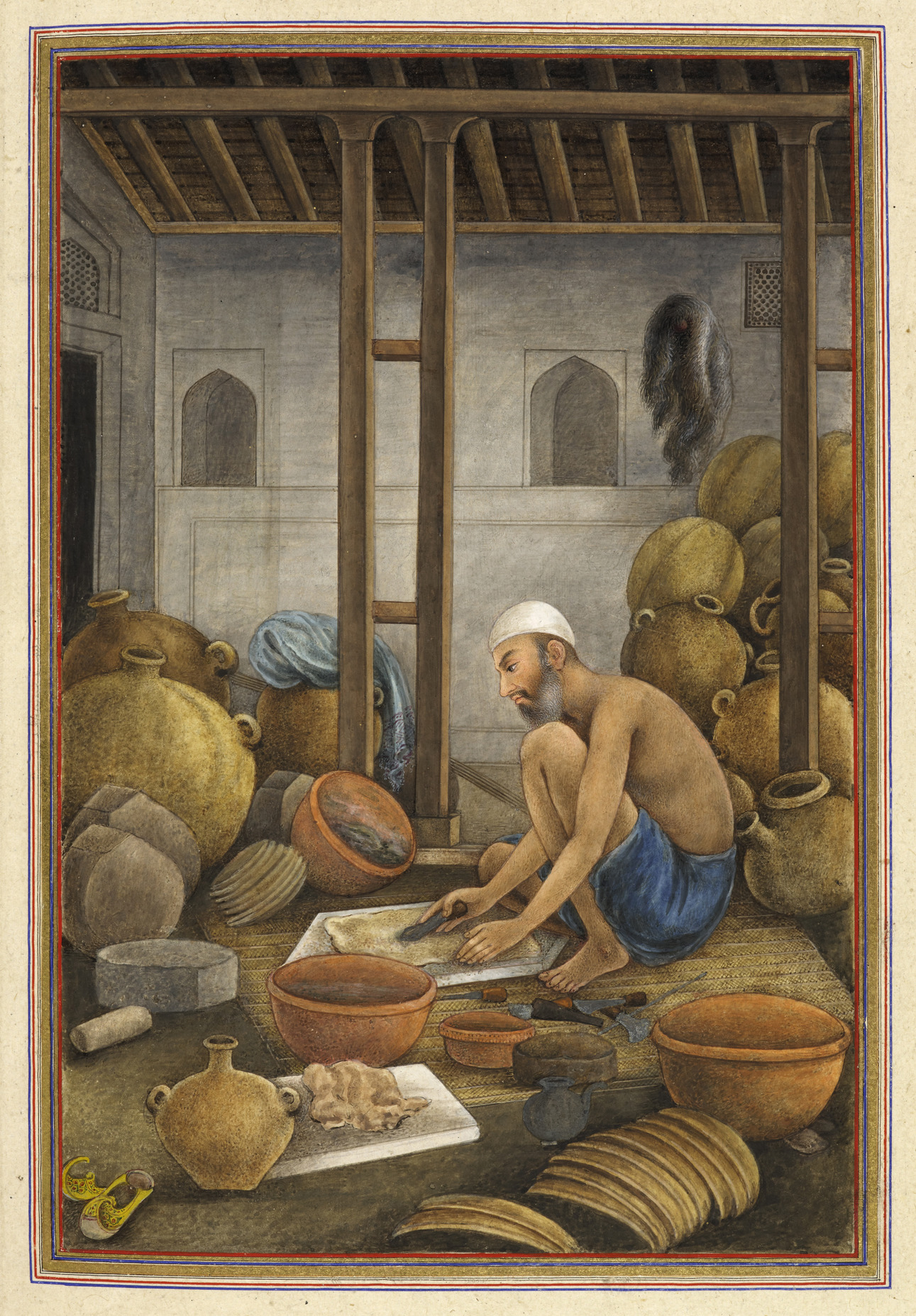 Leather-bottle makers. (Presumably members of the ‘Chamaar’ caste).